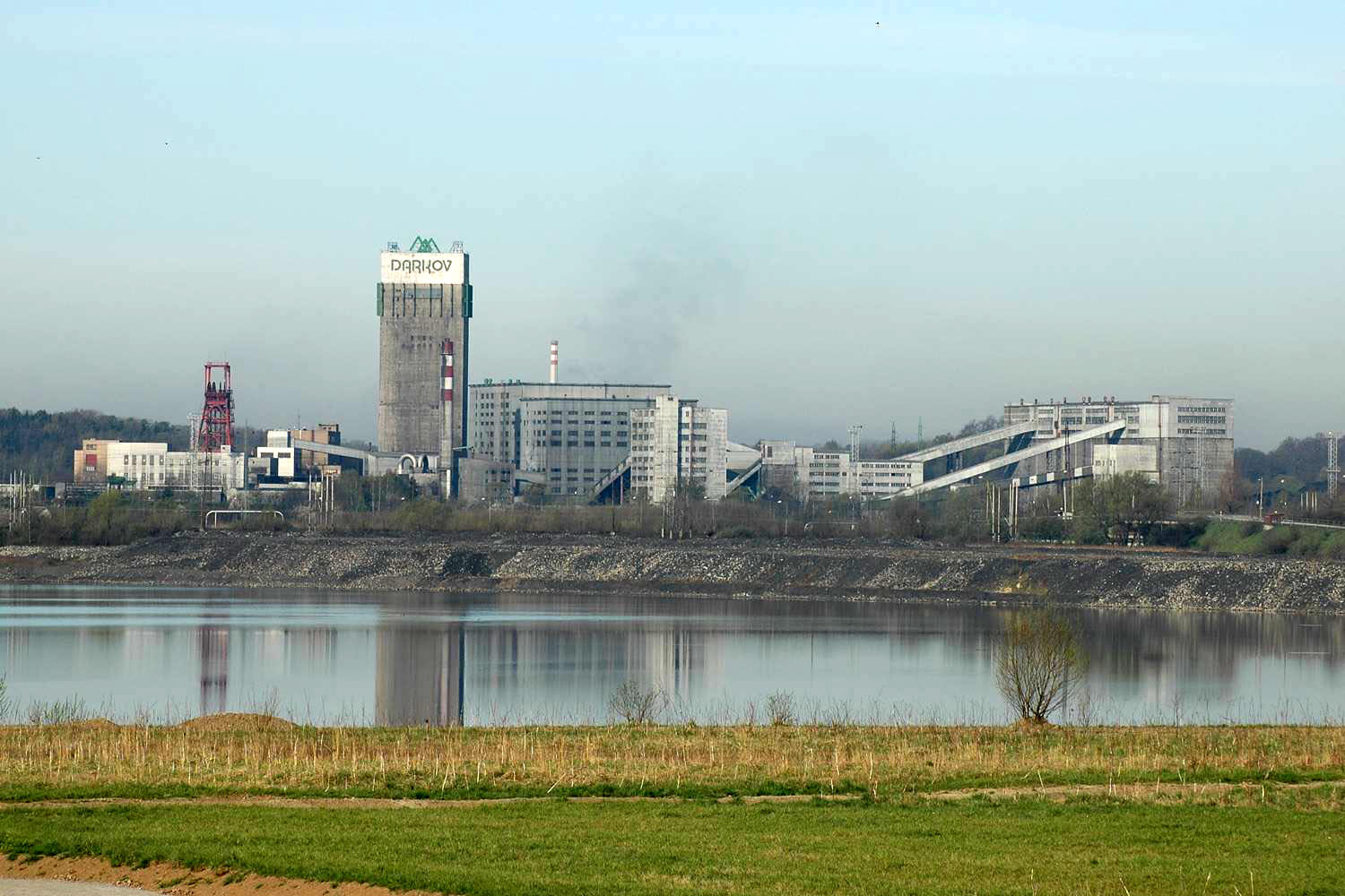 The Darkov mine yard, Karviná, Czech Republic